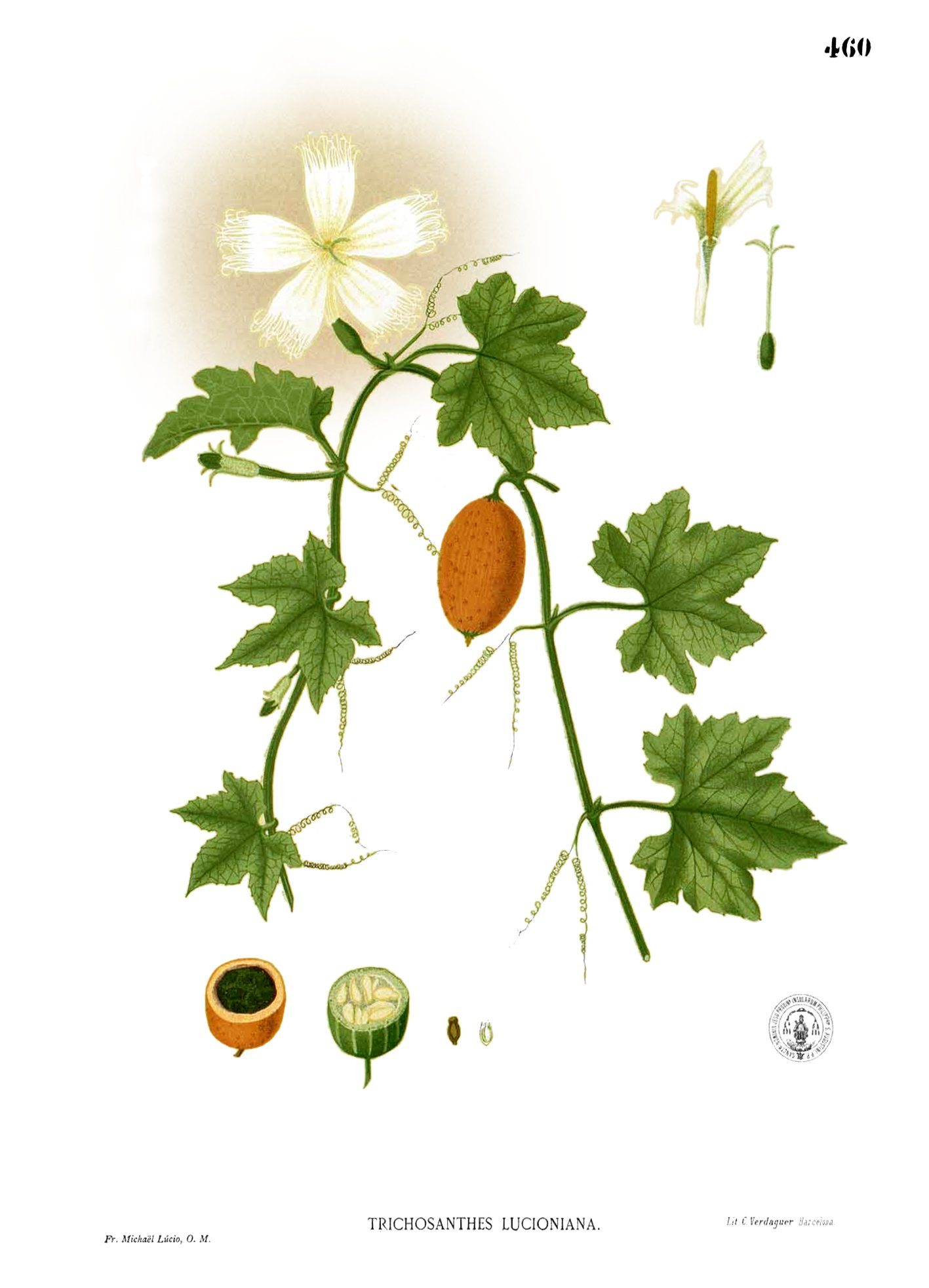 Plate from book